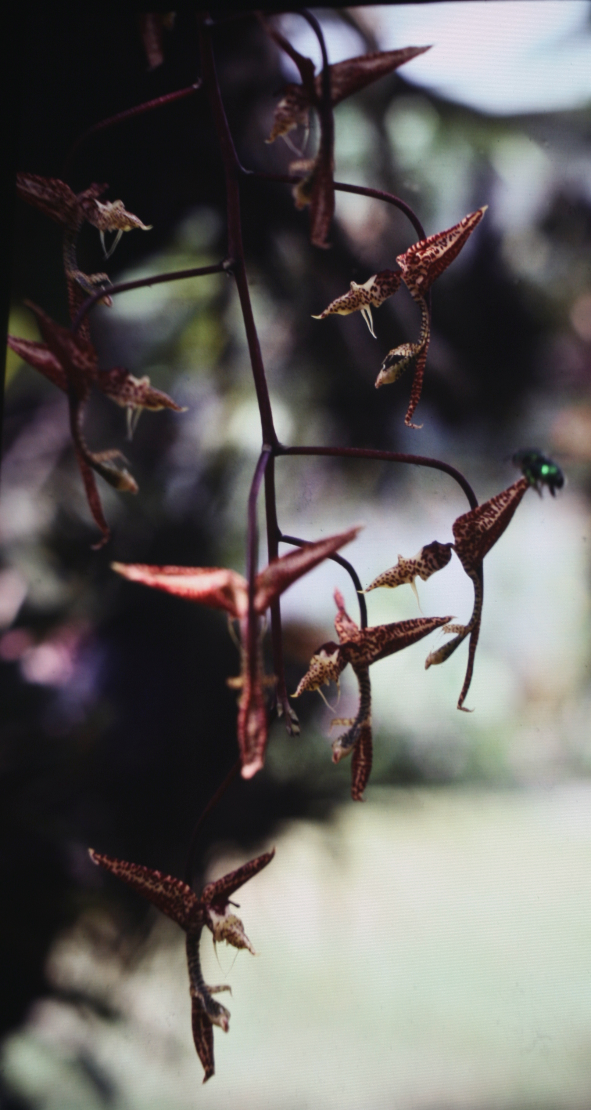 Gongora quinquenervis, Suriname. Pollinator: a bee from the Euglossini, also called orchid bees